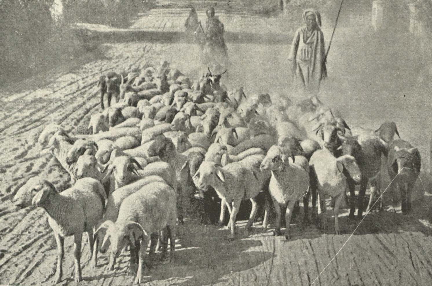 The Shepherd and his Flock